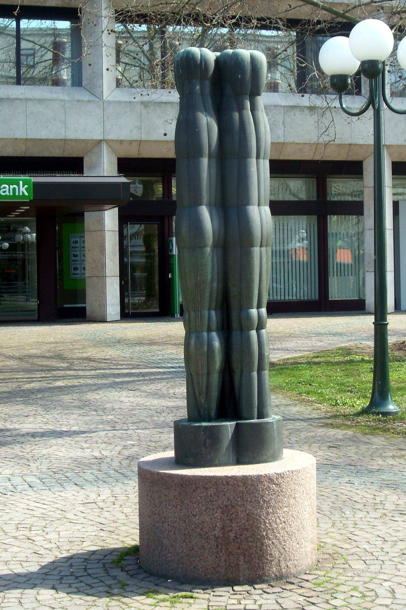 Sculpture by Joannis Avramidis on the Wilhelmstraße in Wiesbaden